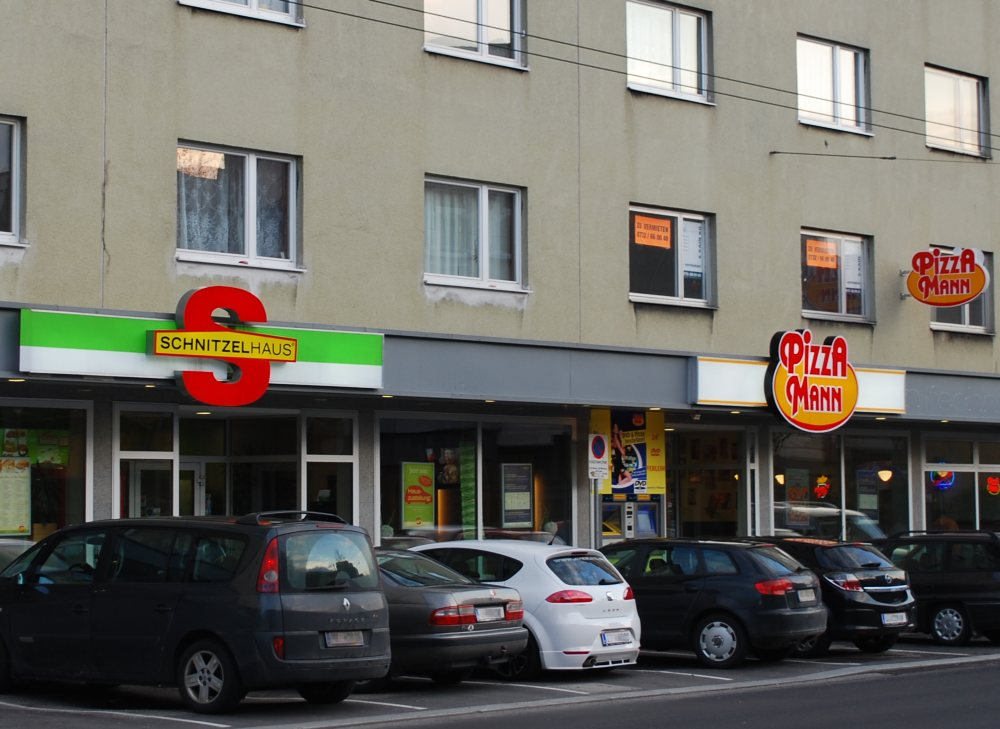 Two neighbouring restaurants of the austrian company "Pizza Mann und Schnitzelhaus", in Unionstraße, Linz, Austria